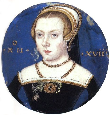 Portrait miniature of Lady Jane Grey or Amy Robsart( Ives, Eric (2011) Lady Jane Grey: A Tudor Mystery, John Wiley & Sons, ISBN: 9781444354263. )